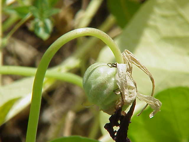 Species: Tropaeolum majus Family: Tropaeolaceae Image No. 1